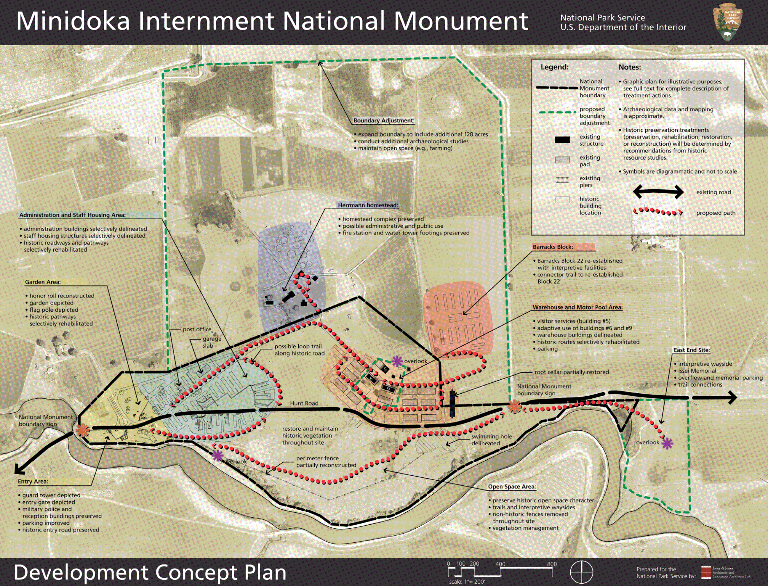 Development Concept Plan for Minidoka Internment National Monument, Idaho, USA - map of the planed Monument and Memorial for the internment of Japanese Americans in World War II. 180 dpi from PDF source, 256 colors png. Since July 2008: Minidoka National Historic Site